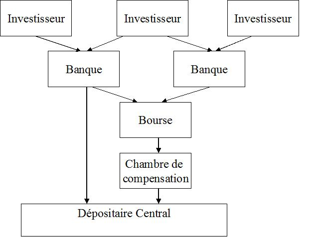 securities settlement venues